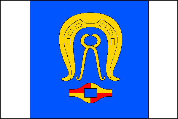 Municipal flag of Dolní Řasnice village, Liberec District, Czech Republic.